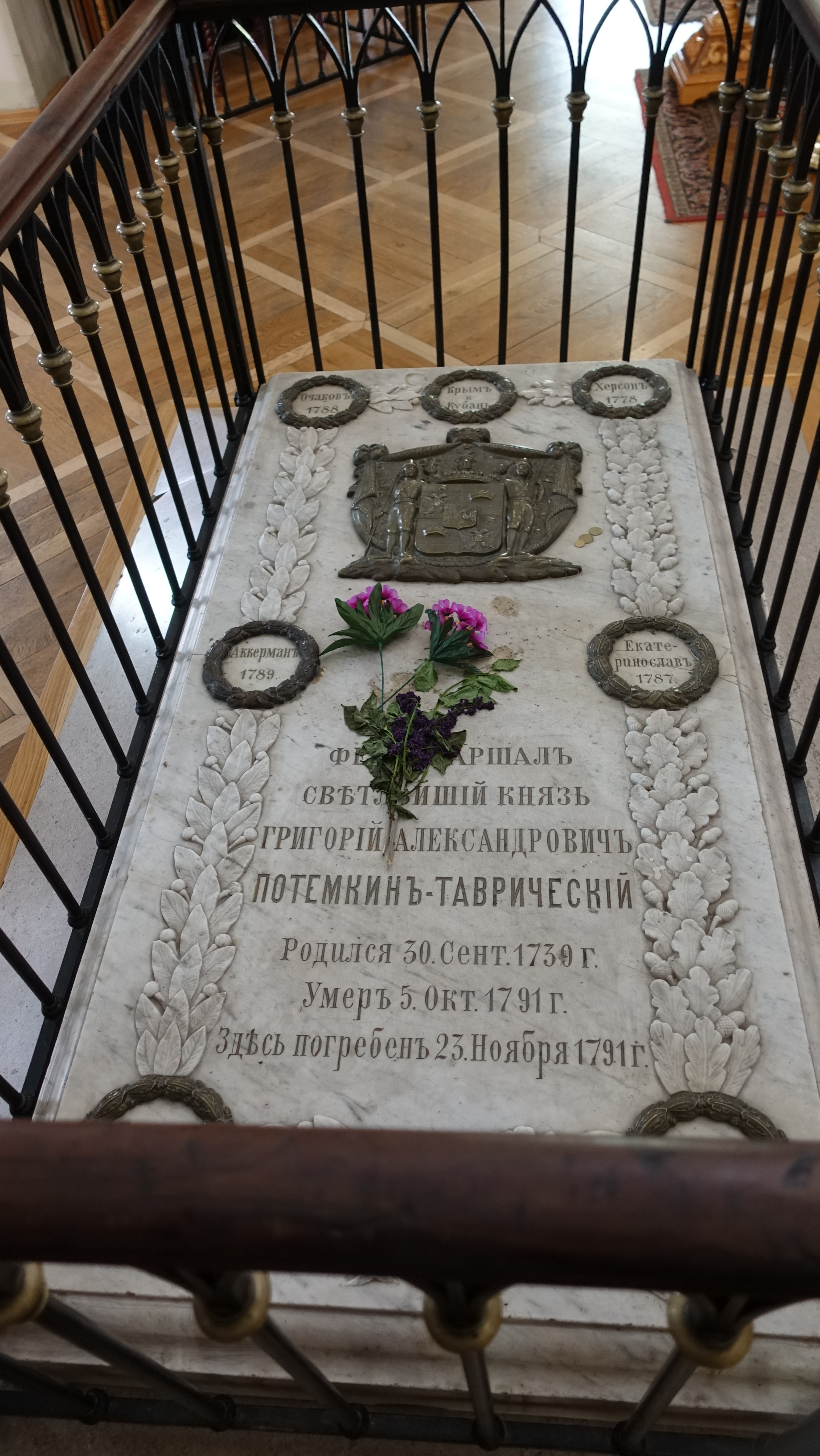 Prince Potemkin grave